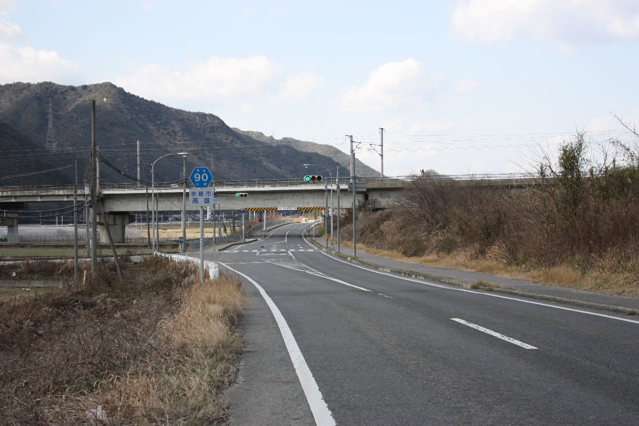 The Hyogo Prefectural Road Route 90 in Ako City